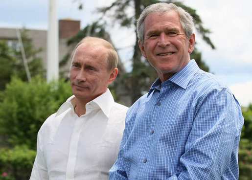 President George W. Bush and President Vladimir Putin meet with the press, prior to the Russian leader's departure, July 2, 2007, from Kennebunkport, Maine, USA.